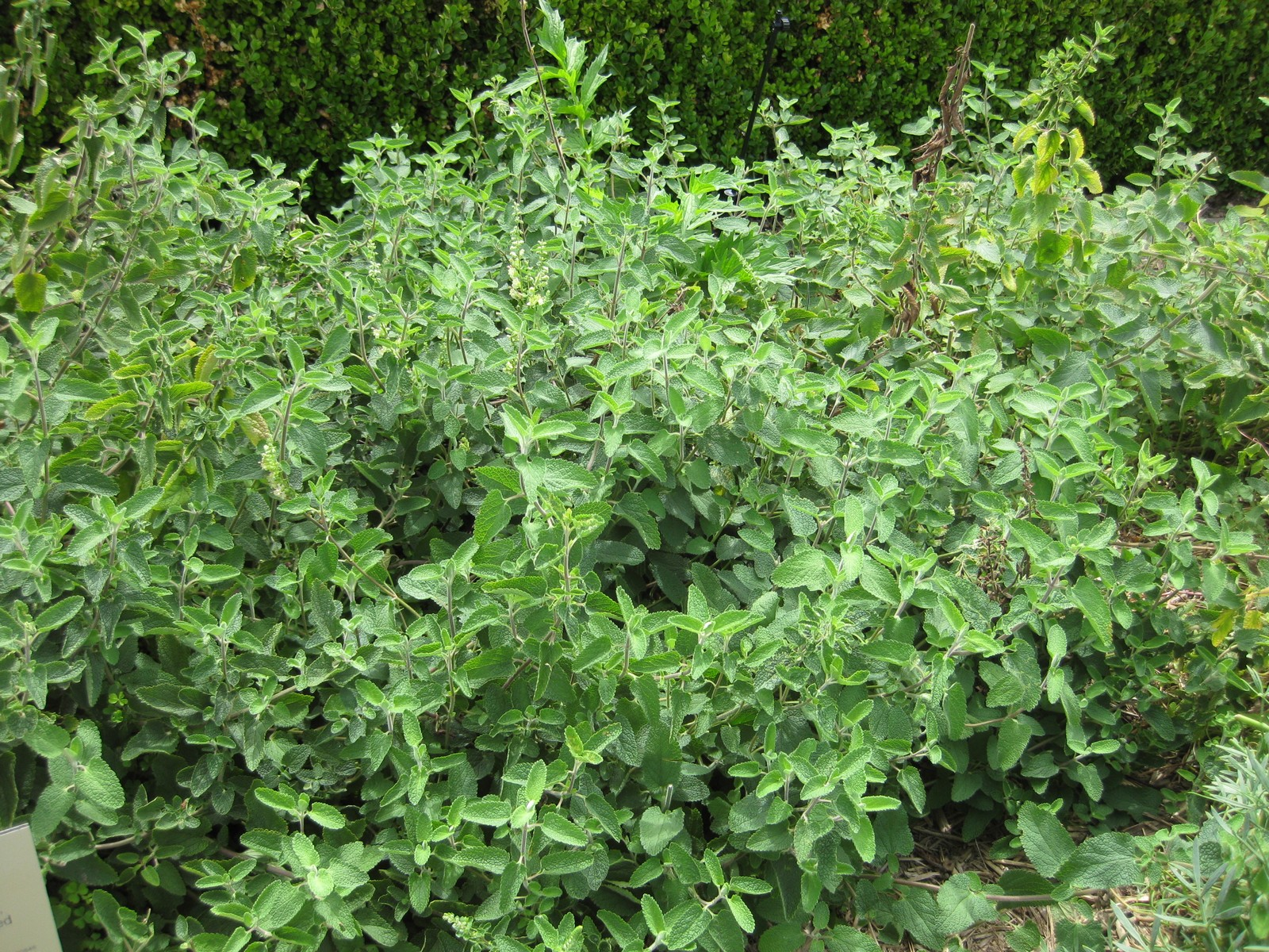 Photographed at the Royal Botanic Gardens Sydney (Australia) in January